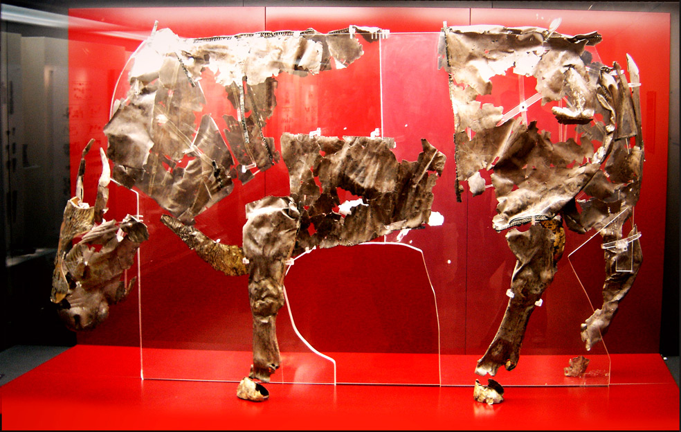 Silver bull at the Delphi Archaeological Museum